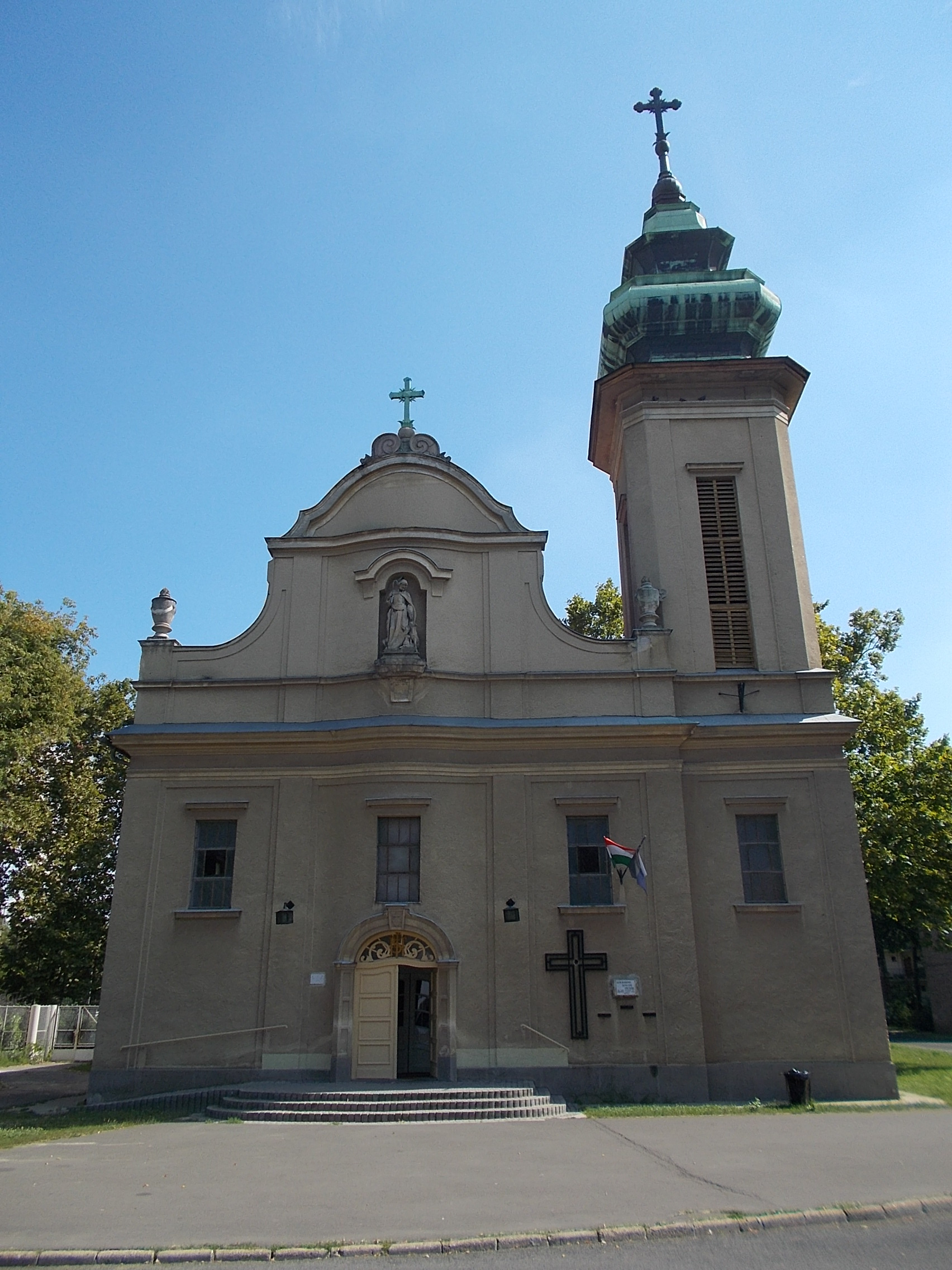 Facade of the Heart of Jesus Church - Béke Square, Budapest District XXI., Budapest.